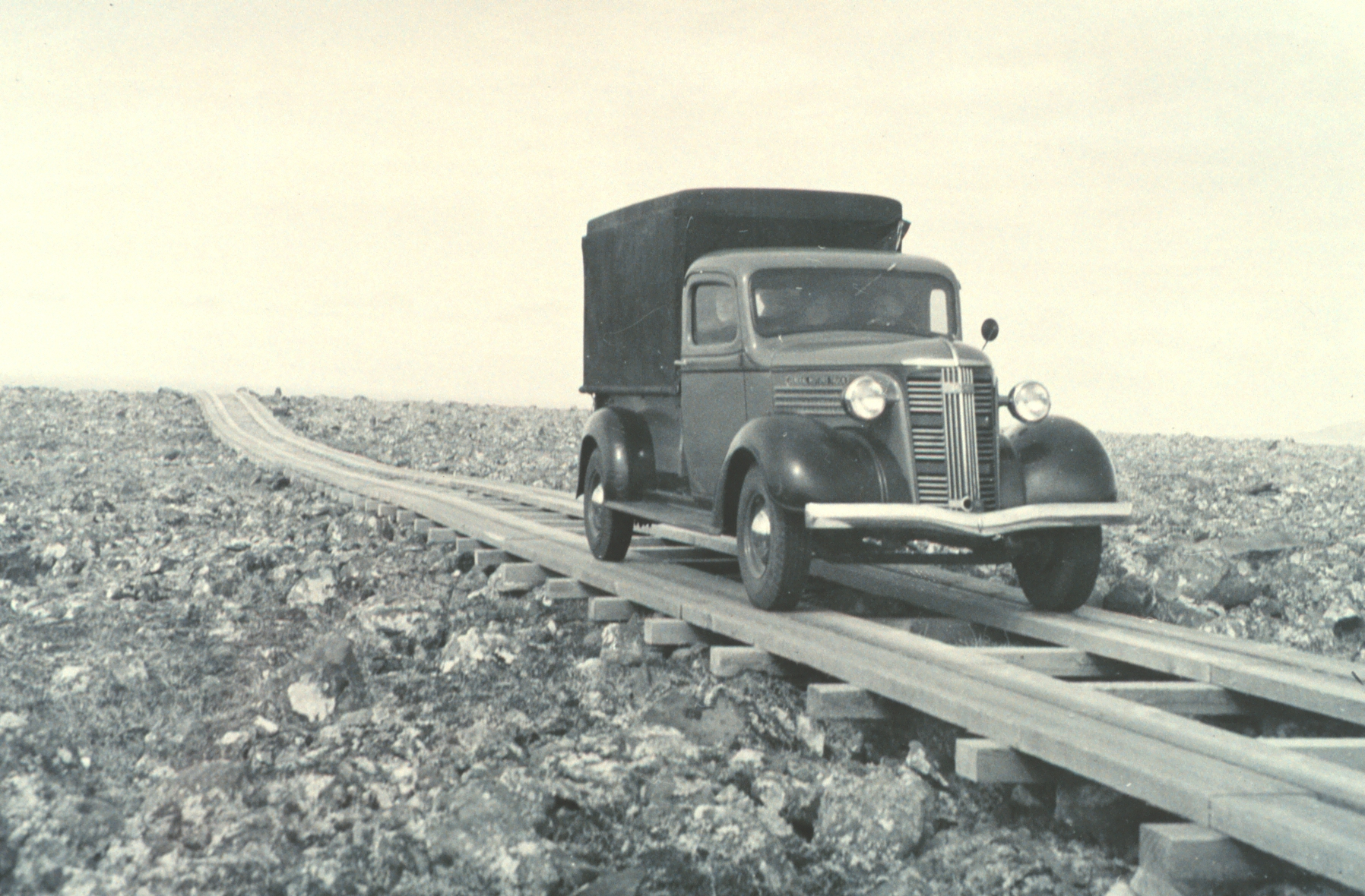 The plank road on St. George Island, one of the Pribilof Islands of Alaska, USA, taken c. 1938.